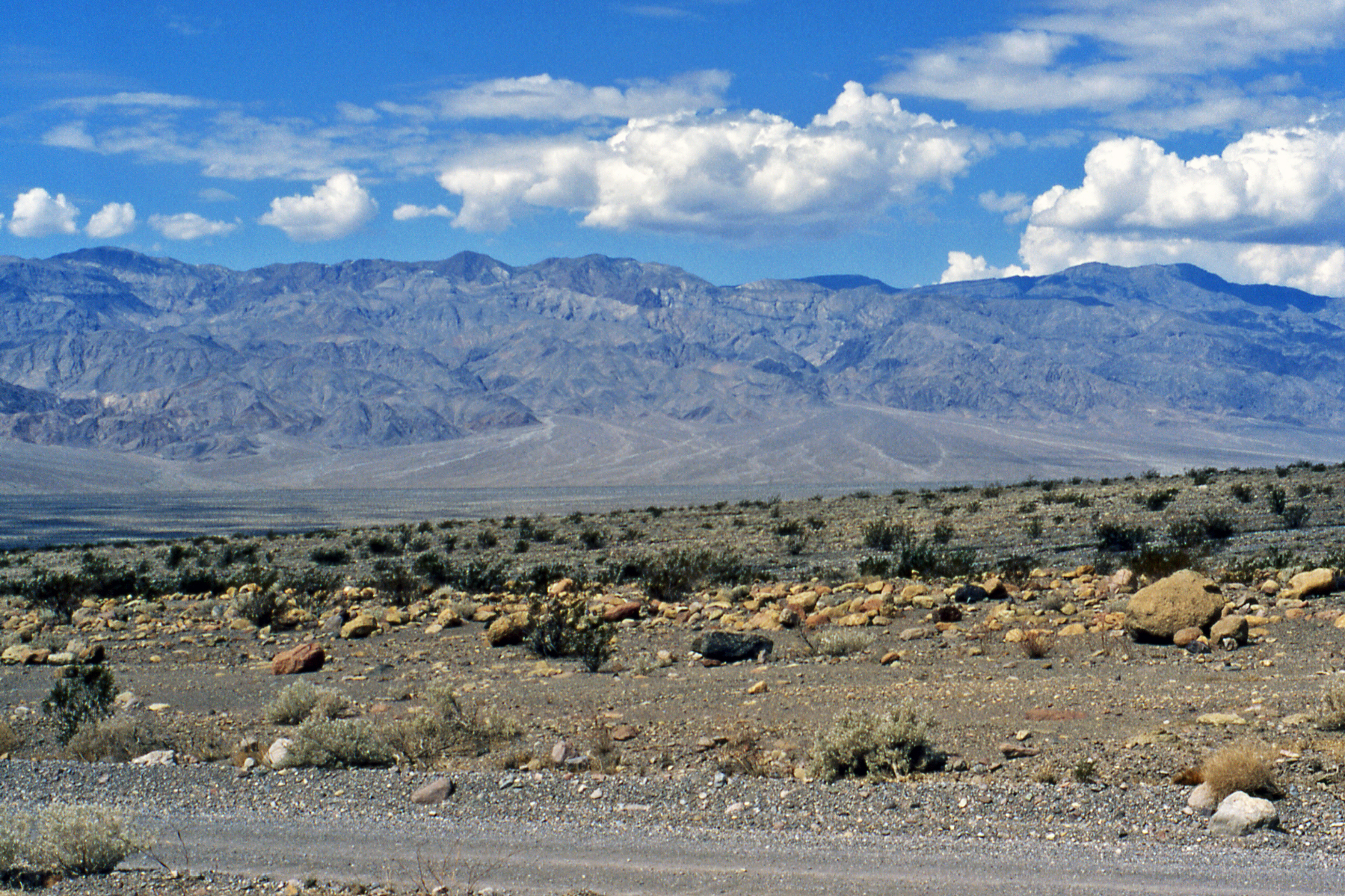 Seen in the bottom foreground is part of a large alluvial fan in Death Valley, California. Alluvial fans are cone-shaped piles of sediments deposited at the mouths of desert canyons. They consist principally of poorly-sorted, coarse-grained materials - gravel and sand. Deposition occurs during flash flood events. Normally-dry washes in mountainous canyons experience highly intermittent high-flow events. During such episodes, moving water has sufficient energy to transport large volumes of heavy cobbles and boulders out onto adjacent valley floors. This fan has a lithic gravel-dominated top surface. This alluvial fan is located along Death Valley's northeastern margin. Death Valley is a graben - a down-dropped block formed by extensional tectonics. The mountain range in the distance (Cottonwood Mountains) is a horst - an uplifted block formed by the same process. In terrains with horsts and grabens, major normal faults define the boundaries between mountain ranges and valleys. Death Valley is an especially low graben. Its valley floor reaches well below sea level (about 280 feet). Notice that, in the distance, several alluvial fans have coalesced together along the base of the Cottonwood Mountains. An extensive deposit of laterally-coalesced alluvial fans is known as a bajada. Locality: view (looking ~west) of Death Valley & the Cottonwood Mountains from the near-westernmost stretches of Titus Canyon Road, Death Valley National Park, southeastern California, USA